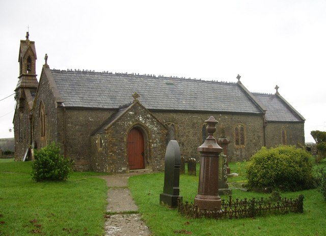 The church of St.Cynog, Llangynog